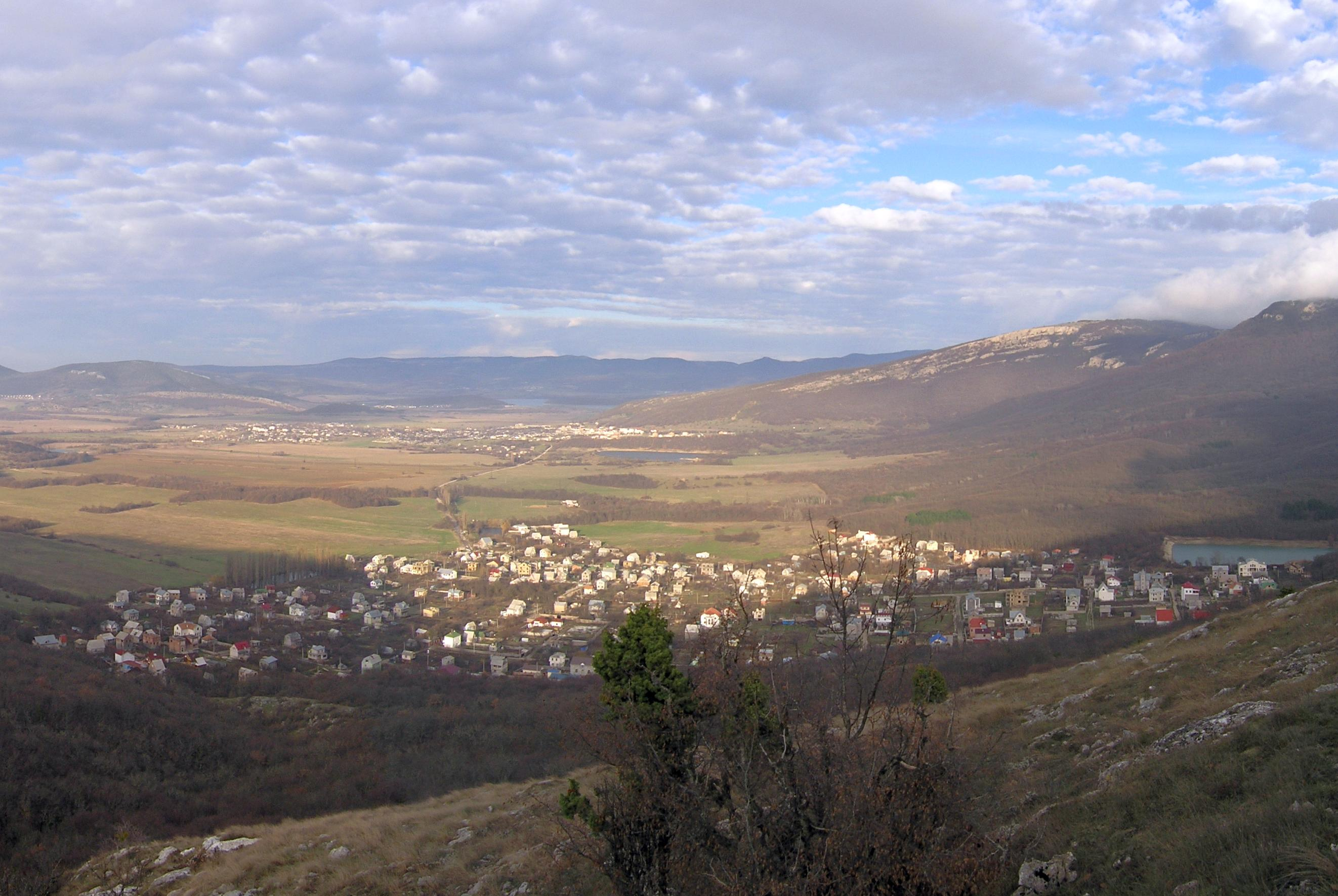 village Kizilovoe, the Sevastopol city council.